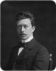 Wilhelm Peterson-Berger in 1898.